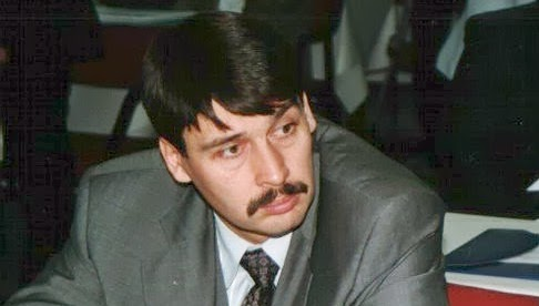 The president of Hungary, János Áder in 2000.